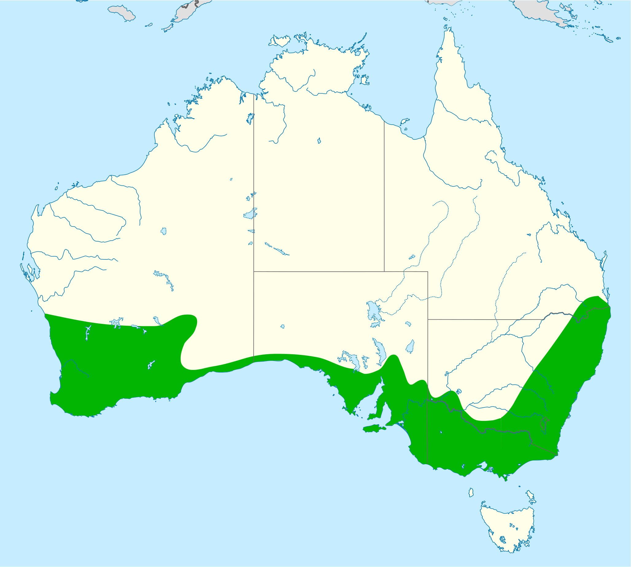 Distribution map of the red wattlebird (Anthochaera carunculata) This is based on: Birddata: Atlas Distributions Maps: Red Wattlebird, Birdlife Australia Schodde, R.; Mason, I.J. (1999). Directory of Australian Birds: Passerines. CSRO. p. 302. ISBN 0-643-06456-7. Google Preview of ebook available here. Also consulted: Higgins, Peter J.; Peter, Jeffrey M.; Steele, W. K. (eds) (2001). "Anthochaera carunculata Red Wattlebird". Handbook of Australian, New Zealand and Antarctic Birds. Volume 5: Tyrant-flycatchers to Chats. Melbourne: Oxford University Press. pp. 463-481 [465]. ISBN 0-19-553258-9. Higgins, P.; Christidis, L.; Ford, H. (2016). "Red Wattlebird (Anthochaera carunculata)". In del Hoyo, J.; Elliott, A.; Sargatal, J.; Christie, D.A.; de Juana, E. Handbook of the Birds of the World Alive. Lynx Edicions. (subscription required) Average annual, seasonal and monthly rainfall, Australian Bureau of Meteorology Base map: File:Australia location map.svg The Birddata database shows a low density of reported sightings in the arid area of southern WA south of Laverton. It difficult to know where to draw the line in this region. Although all sources show a continuous distribution along the south coast in the Nullarbor Plain, there are very few sightings in this area.